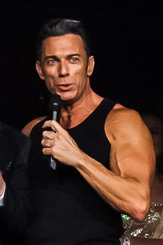 Gérard Vivès during "Danse avec les stars" at Le Zénith de Paris